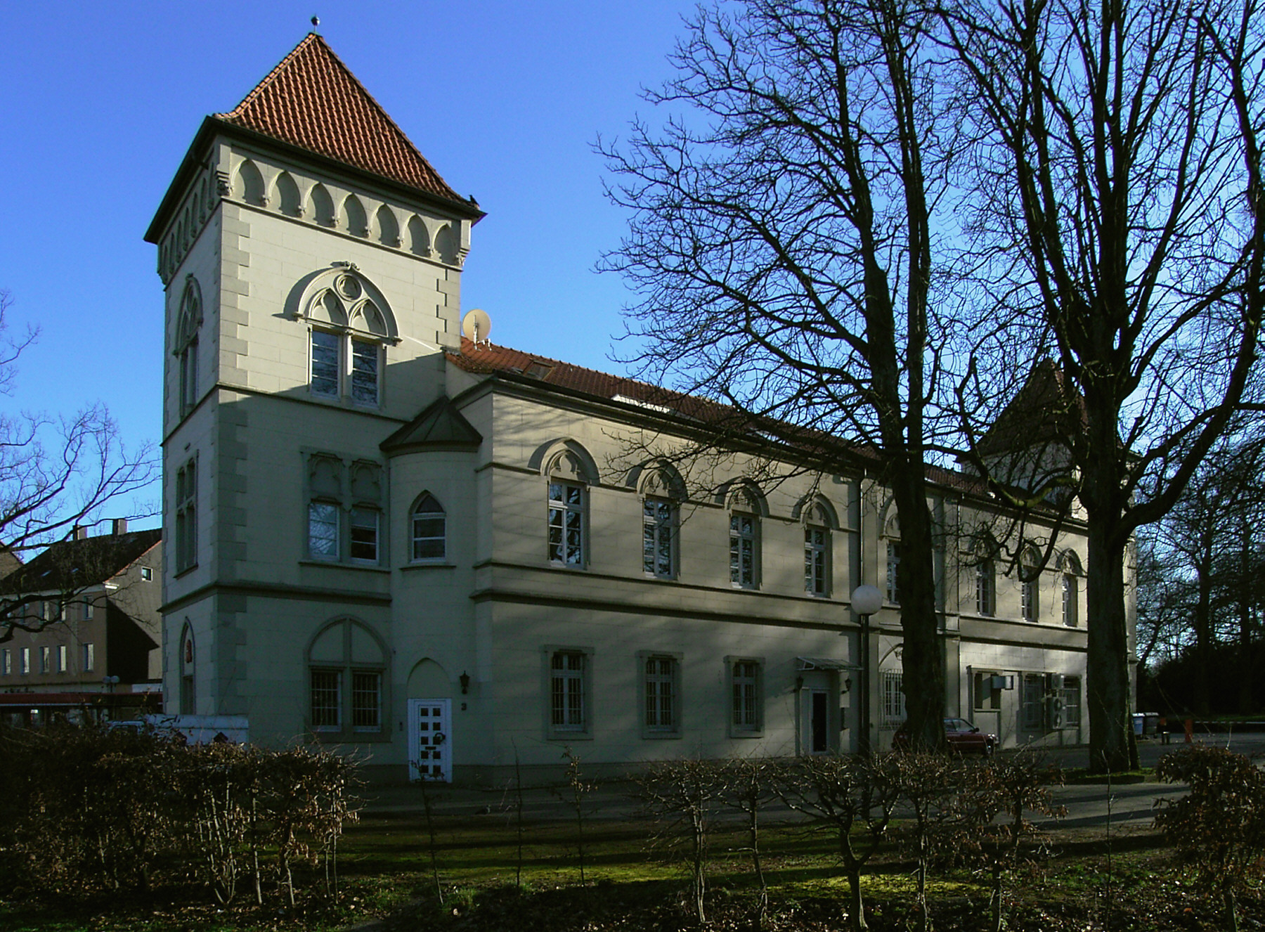 The former Exchequer of the Schulte-Witten-house in Dortmund/Germany.